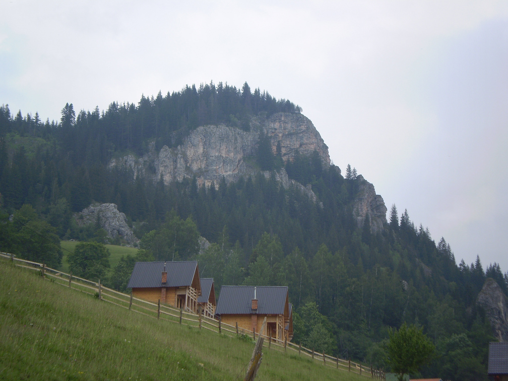 Village of Bogë in Kosovo - my own photo in Flickr